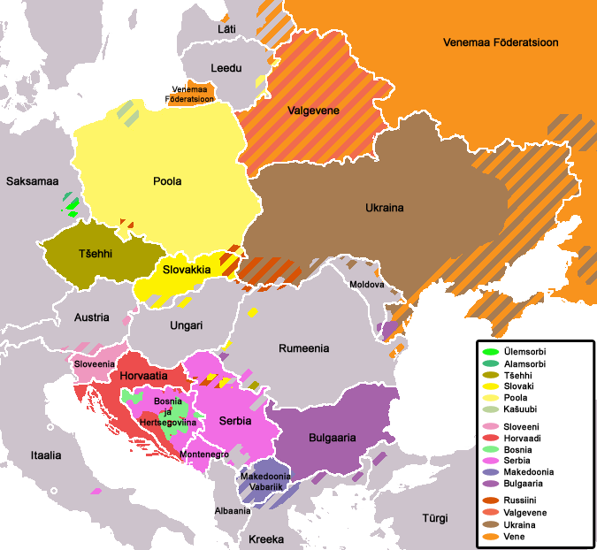 Maps of Slavic languages in Estonian